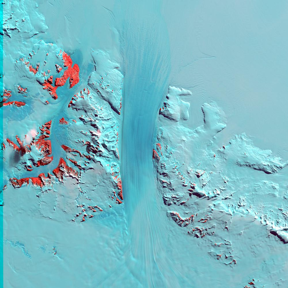 Byrd Glacier, Antarctica from Landsat Byrd Glacier is a fifteen mile wide, one hundred mile long rock-floored ice stream located in southern Antarctica. This long, unique ice feature plunges through a deep valley in the Transatlantic Mountains and into the Ross Ice Shelf. This ice stream speeds as a river of ice at a rate of one half mile per year.